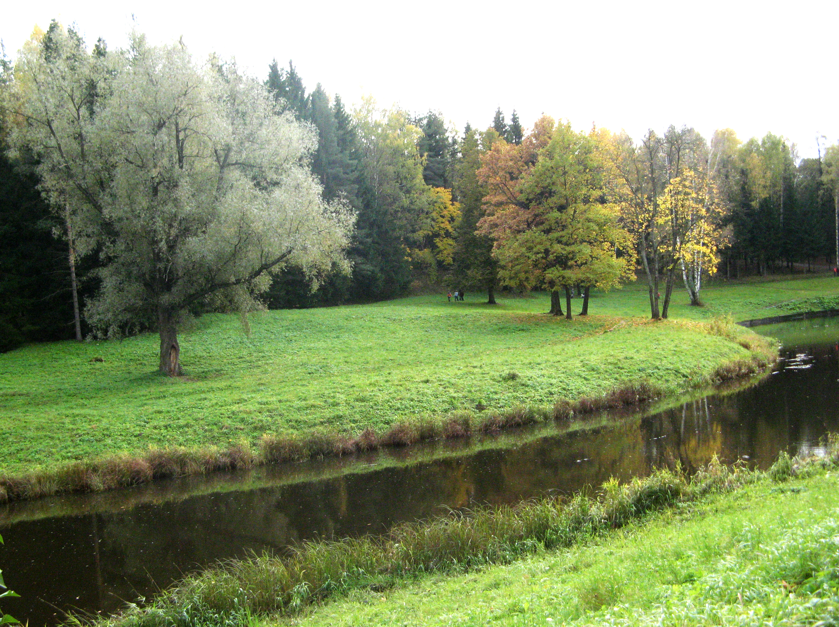 Green trees and bend of river Slavyanka, autumn at Pavlovsk park.